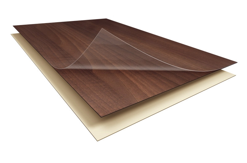 Laminate Image